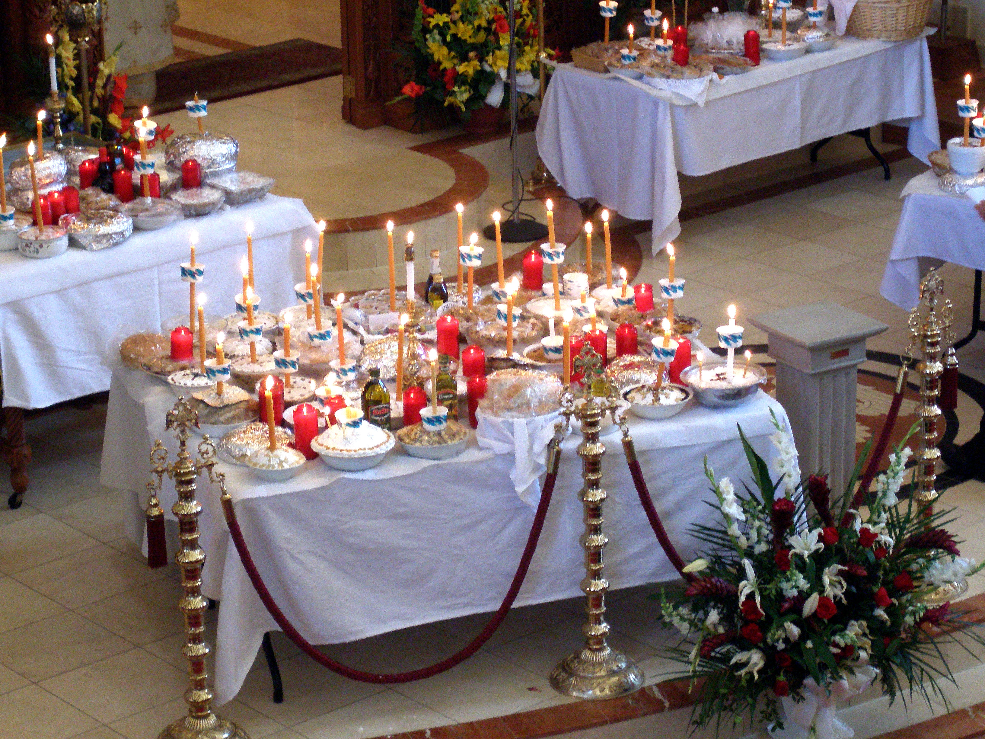 Greek Orthodox Kollyva offerings of boiled wheat, blessed liturgically on Soul Saturday (Psychosabbaton) including Saint Theodore Saturday, and in Memorial Services, during which general commemorations are made for all the departed. Annunciation of the Virgin Mary Greek Orthodox Cathedral, Toronto, Ontario, Canada.